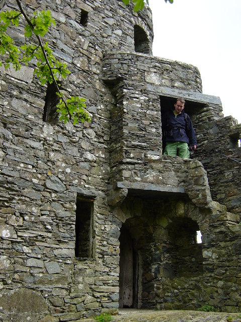 Folly at Garreg. A wedding present from the Welsh Guards to Clough Williams-Ellis and Anabel Strachley in 1915. Just after this photo was taken the folly was closed for repairs.